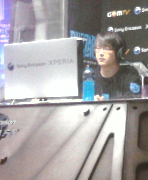 Lim Jae-duk in 2010